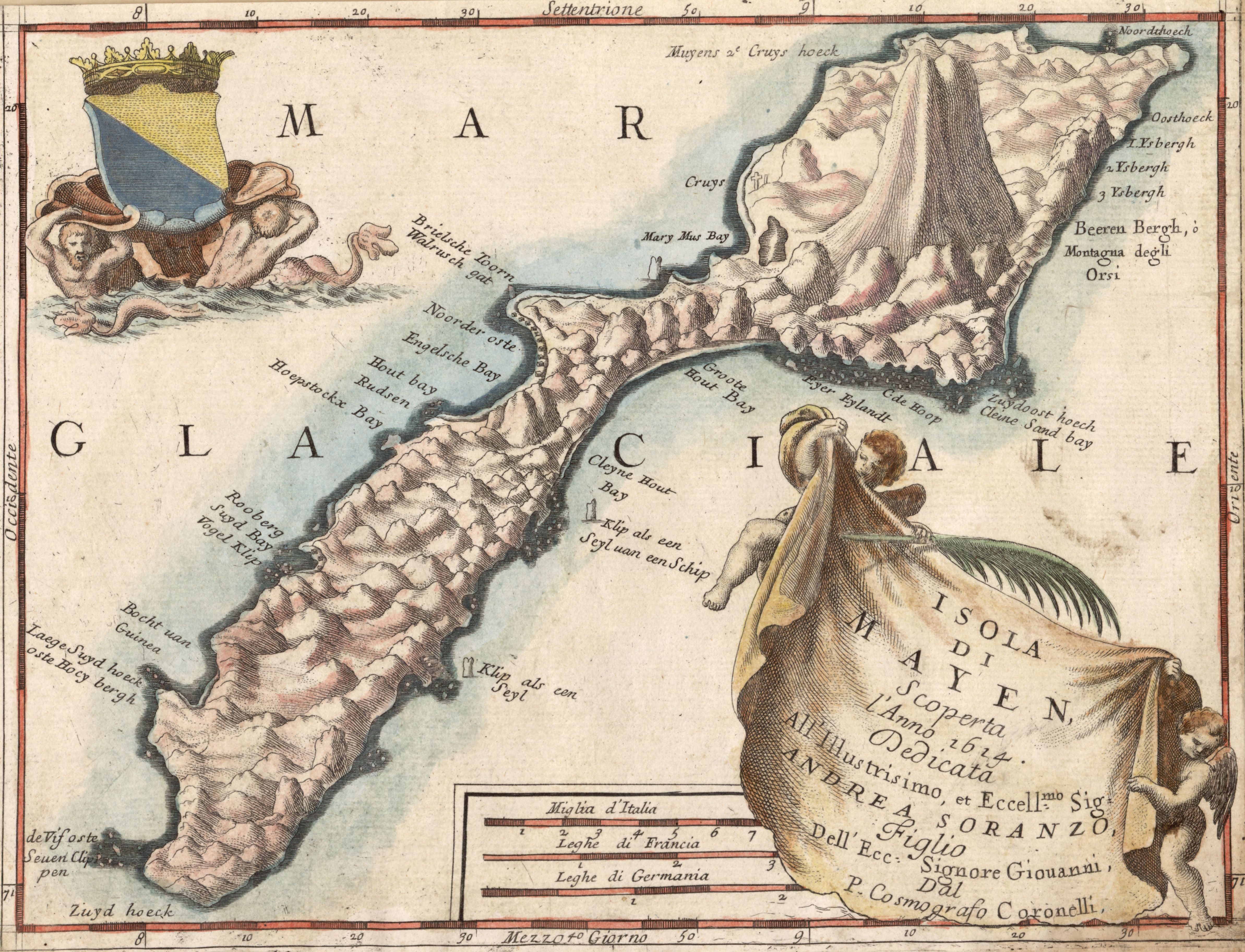 The map appears on plate 166 in the author's Corso geografico universale.